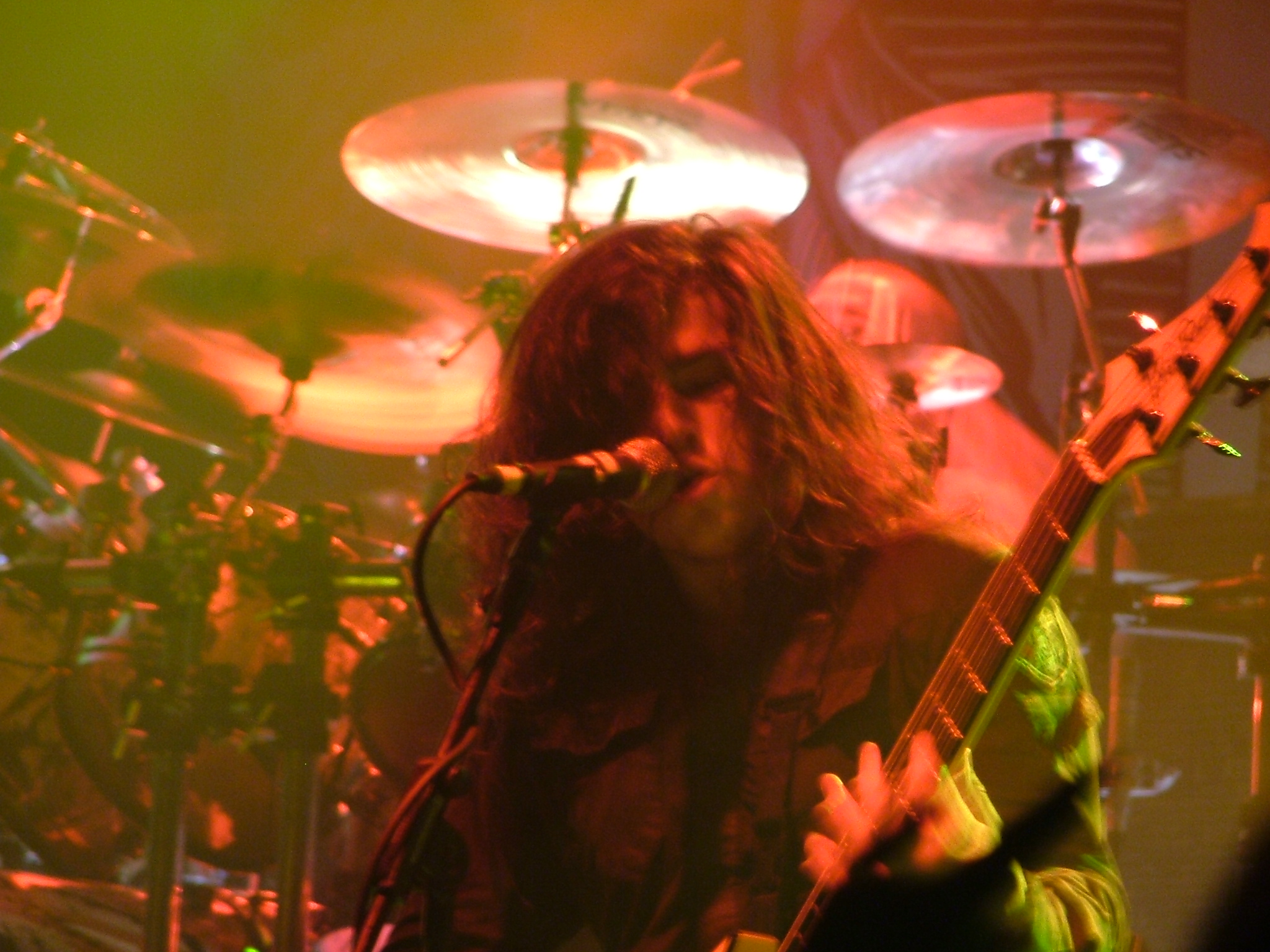 Paolo Gregoletto of US-american thrash metal band Trivium at a concert in Linz